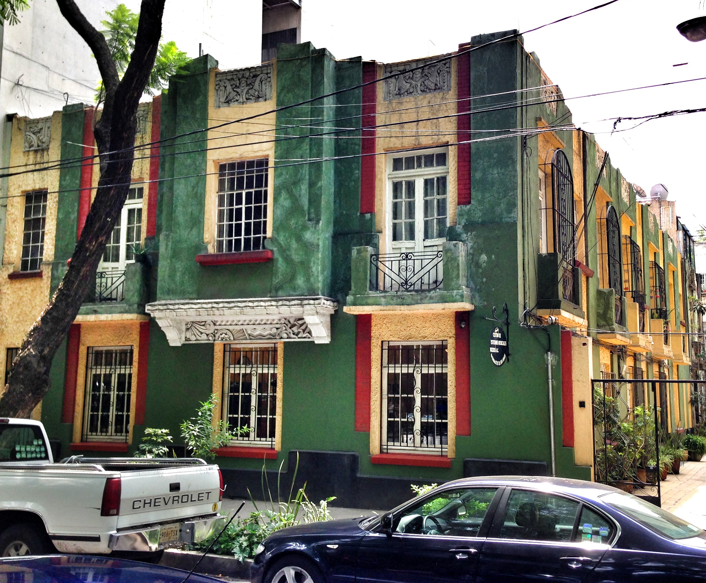 Building on Avenida México, col. Hipódromo, Condesa, Mexico City